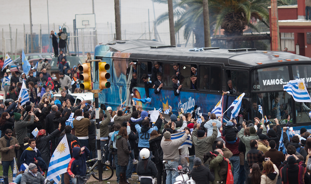 Uruguayans celebrating with players in Montevideo after the 2010 world cup.